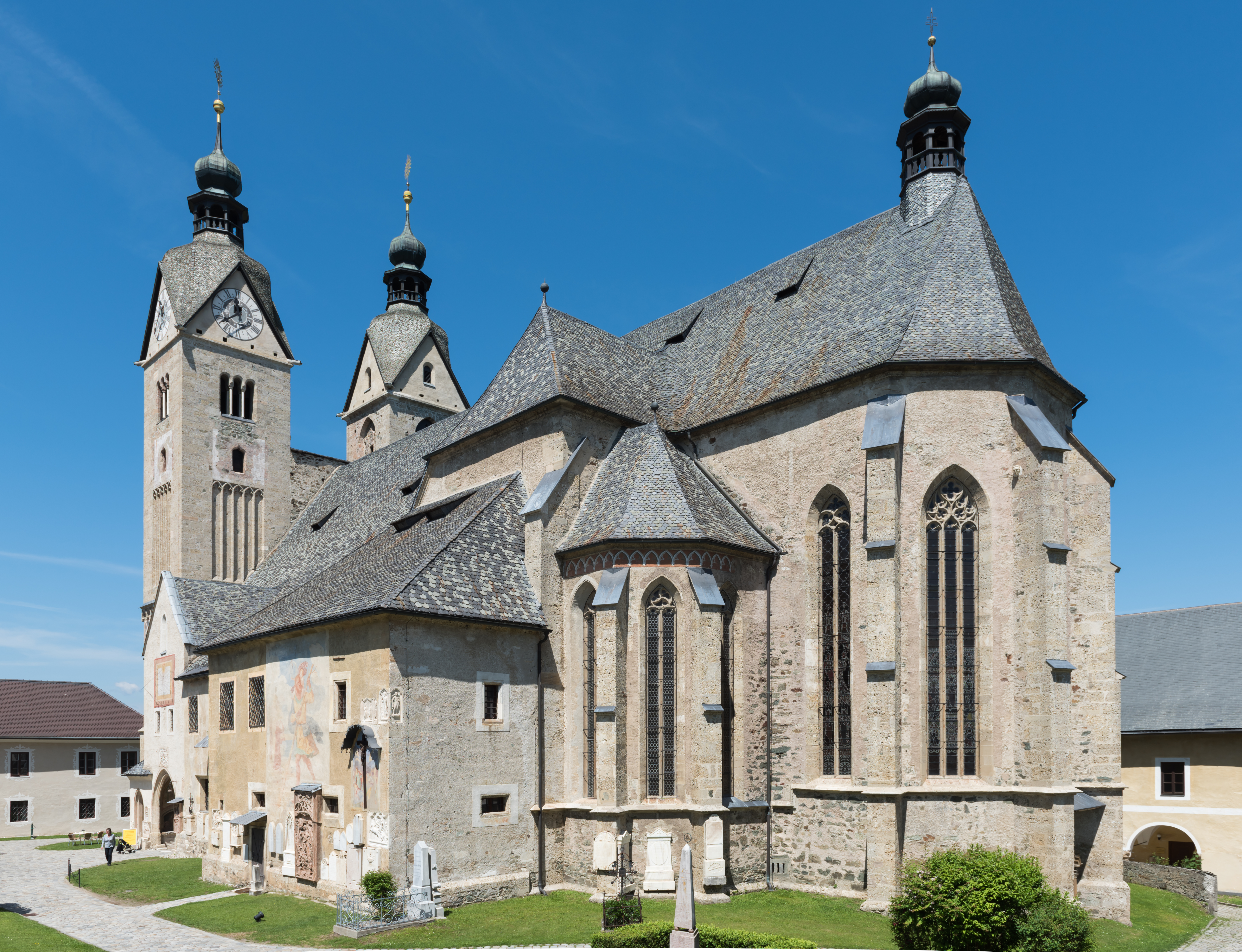 Parish and pilgrimage church Assumption of Mary, market town Maria Saal, district Klagenfurt Land, Carinthia, Austria, EU